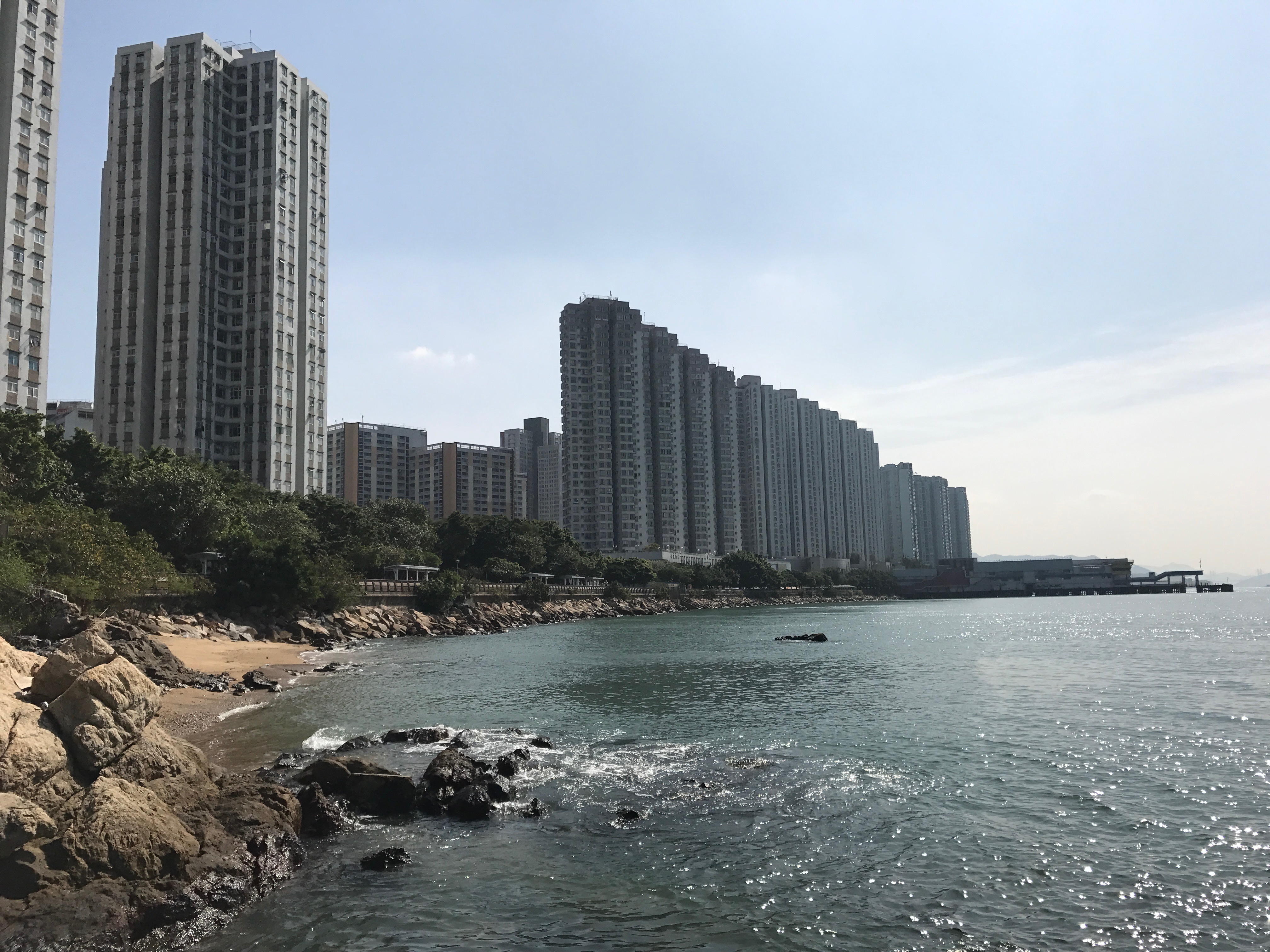 Butterfly Bay Park is the largest sea side park in NT.